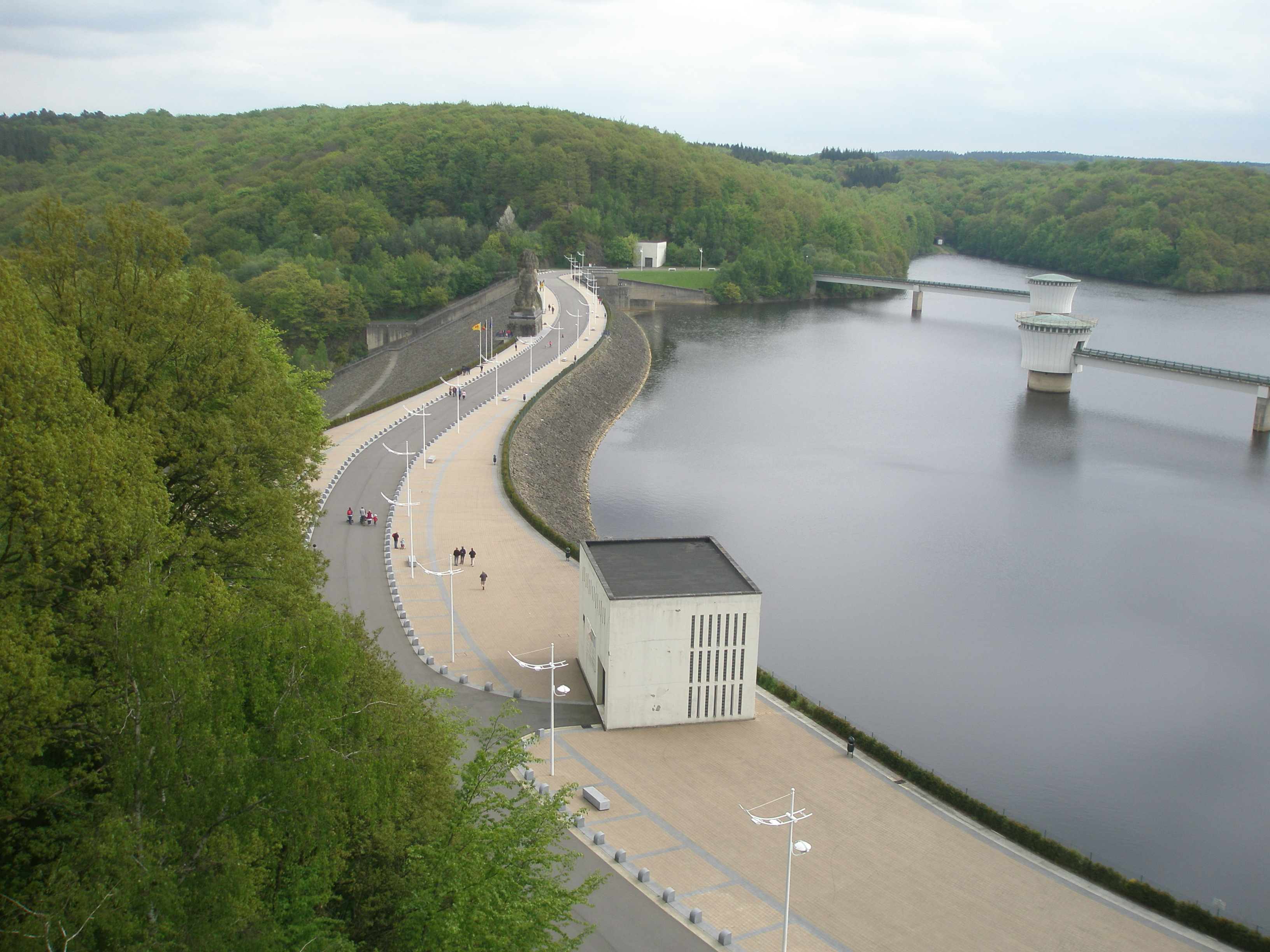 'Barrage de Gileppe' (in French) or 'Stuwdam van Gileppe' (Dutch), located on the Gileppe river in Jalhay in Liege/Luik, Belgium.